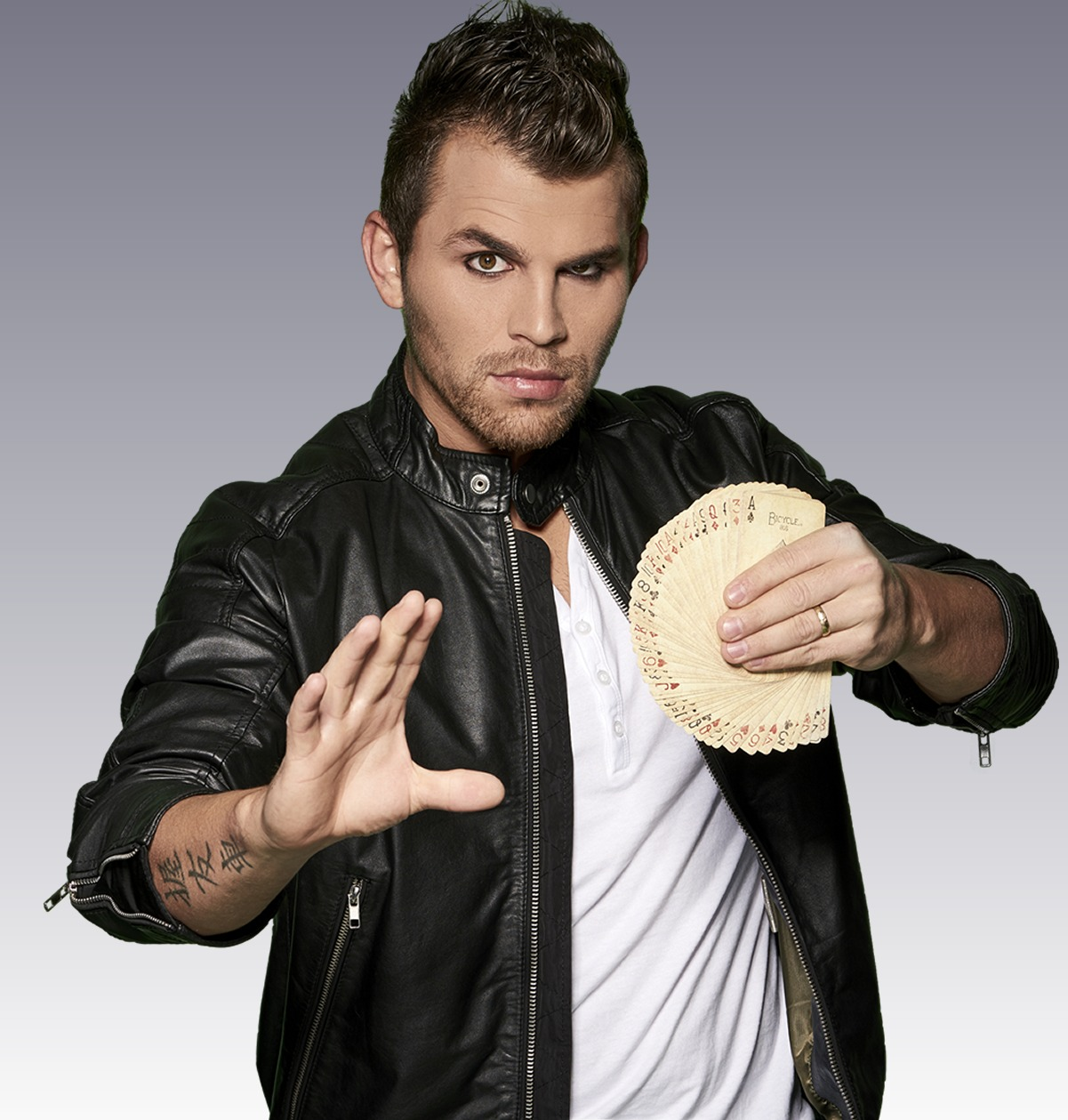 magician and illusionist